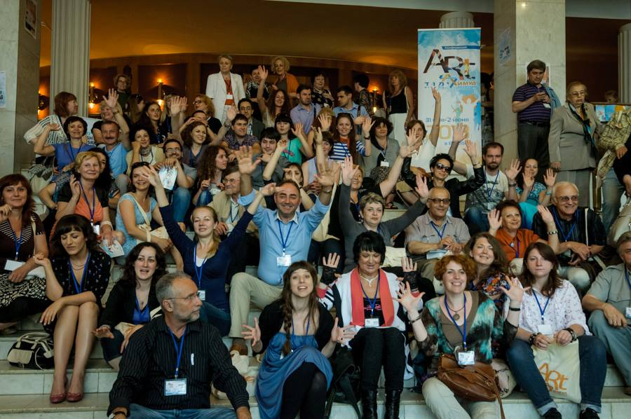 לימוד בילרוס 2013